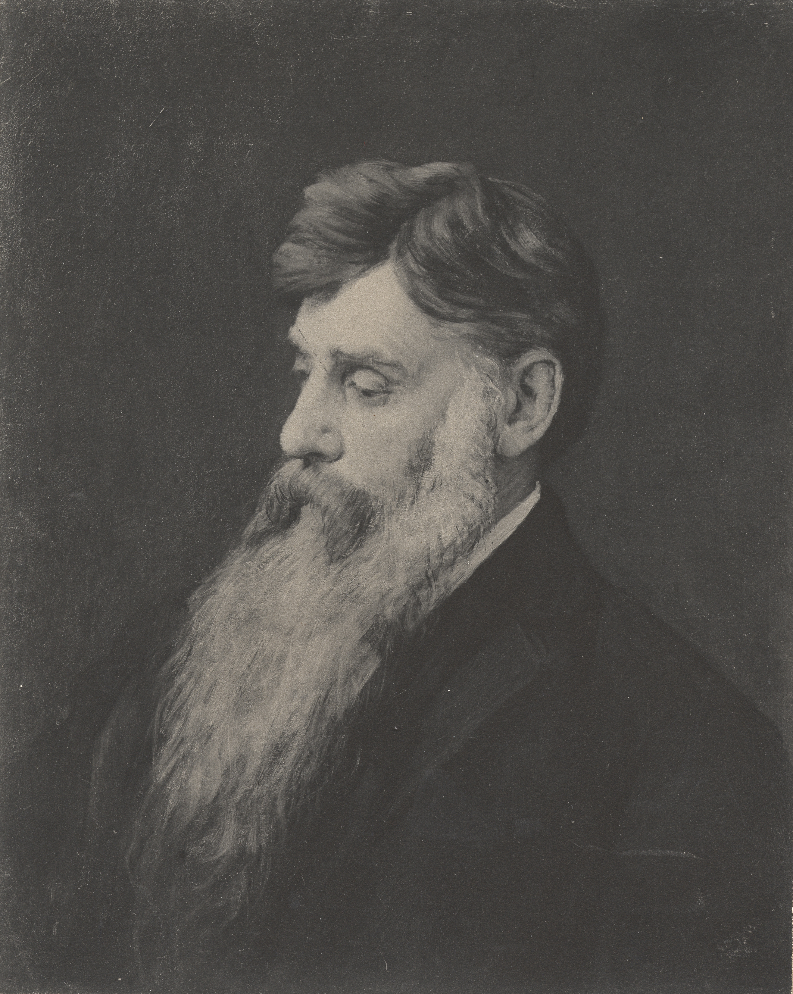 Description: Portrait painting of Wyant, landscape painter. Identification on verso (handwritten): A.H. Wyant. Creator/Photographer: Unidentified photographer Medium: Black and white photographic print Dimensions: 22 cm x 18 cm Date: 1882 Collection: Macbeth Gallery Records, c. 1890-1964 Persistent URL: [1] Repository: Archives of American Art Native nameArchives of American ArtLocationWashington, D.C.Coordinates38° 53′ 52″ N, 77° 01′ 22″ W Established1954Website control : Q2860568 VIAF: 151134814 ISNI: 0000 0001 2185 0758 LCCN: n79065944 NLA: 35007823 GND: 1085306631 WorldCat Accession number: aaa_macbgall_4870